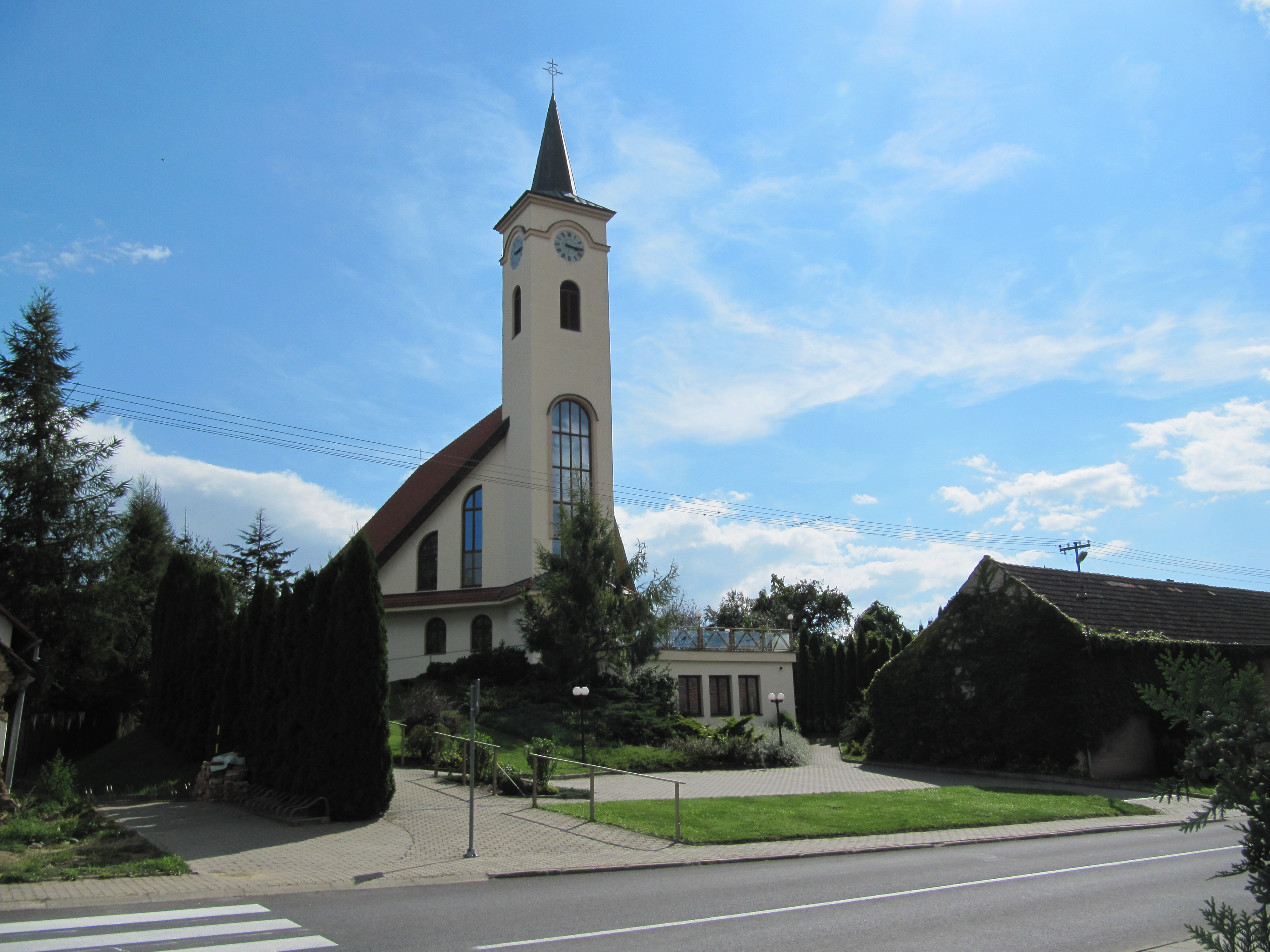 Nedachlebice in Uherské Hradiště District, Czech Republic. St.Cyrill and Metod-church from 1994.